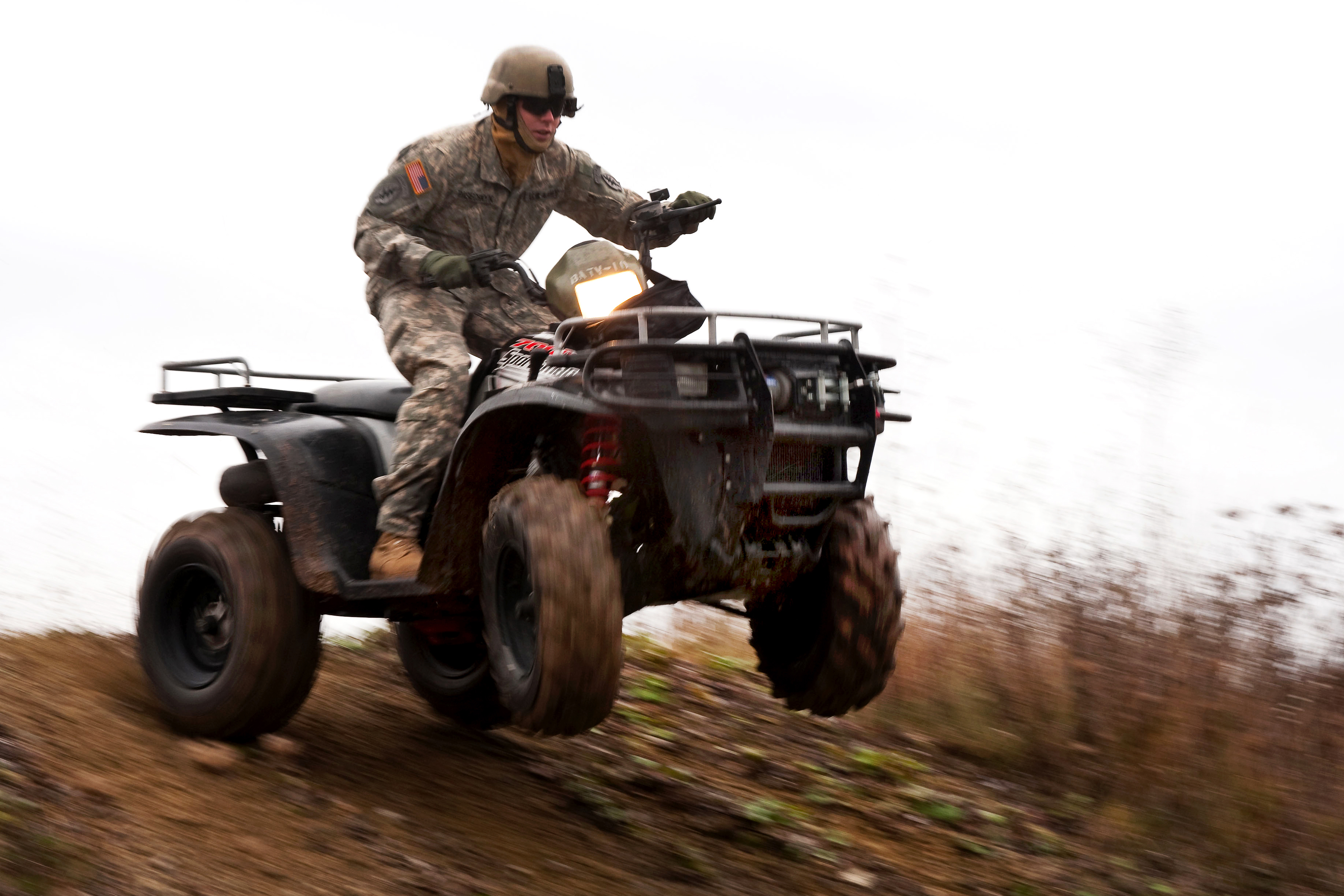 U.S. Army Soldiers train on the advanced mobility course on all terrain vehicles in Boeblingen, Germany, Oct. 22, 2009. The Soldiers are assigned to the 1st Battalion, 10th Special Forces Group. The course allows Soldiers to gain experience on different surfaces from sand and gravel to steep grades, and can also be used for training in humvees. U.S. Army photo by Martin Greeson See more at